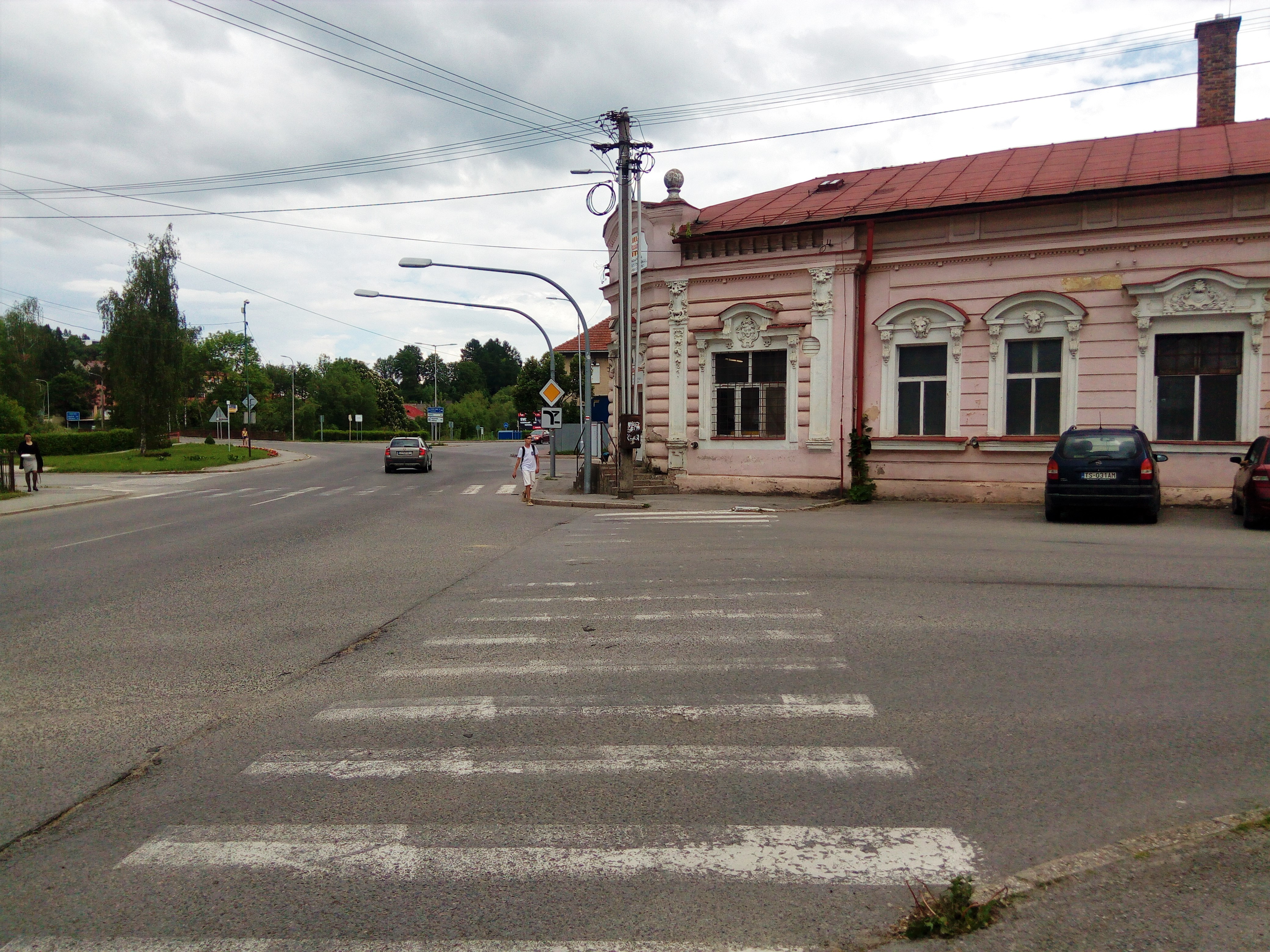 Intersection of Bernolákova and Jána Hertela streets in Trstená, Slovakia.